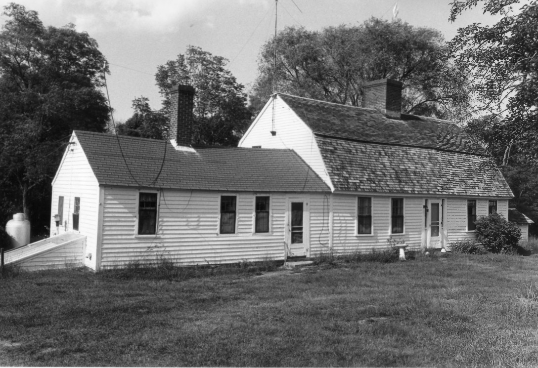 Ezekial Gardner House, North Kingstown, Rhode Island. This house has been demolished.